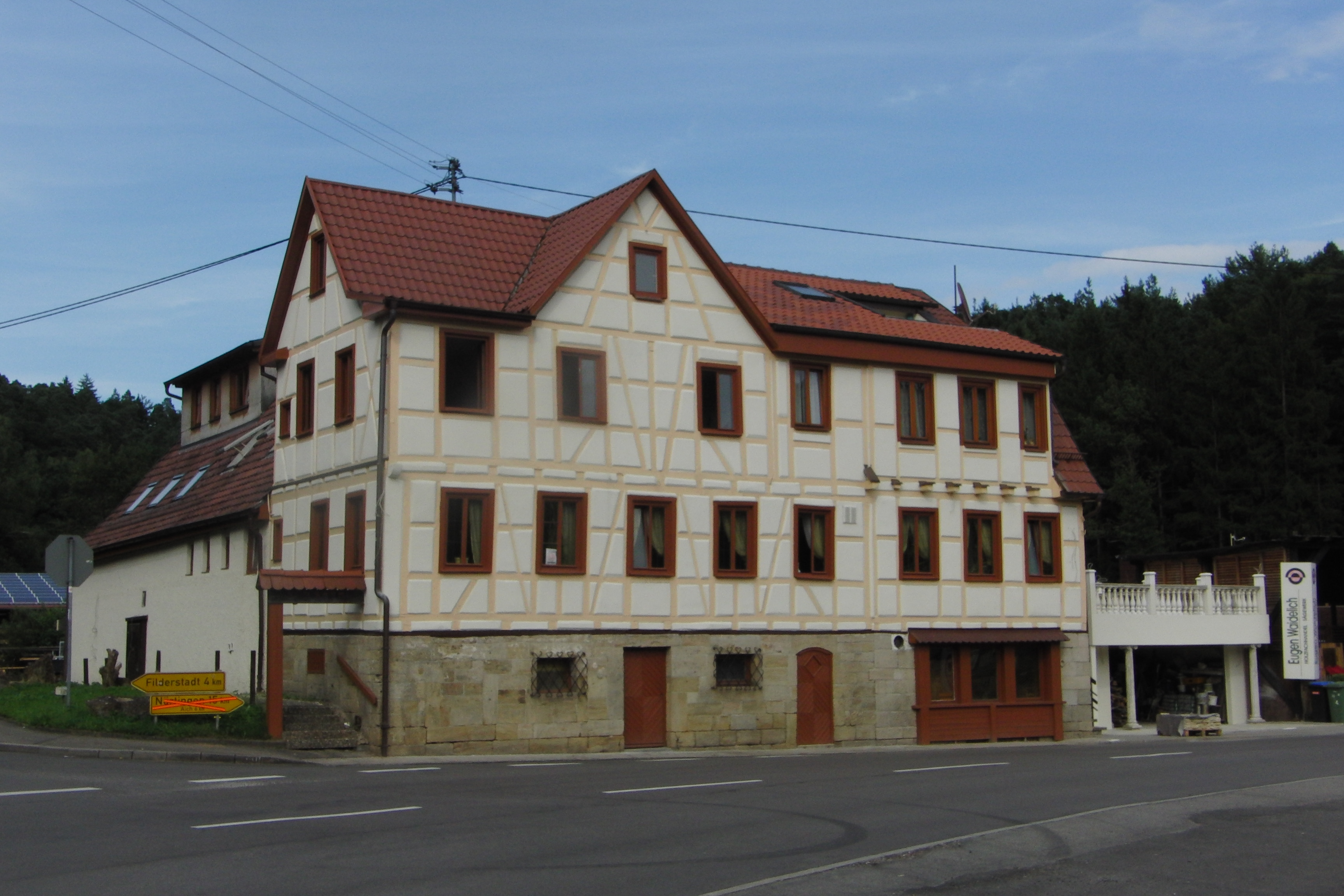 The Burkhardtsmühle, a mill near Waldenbuch